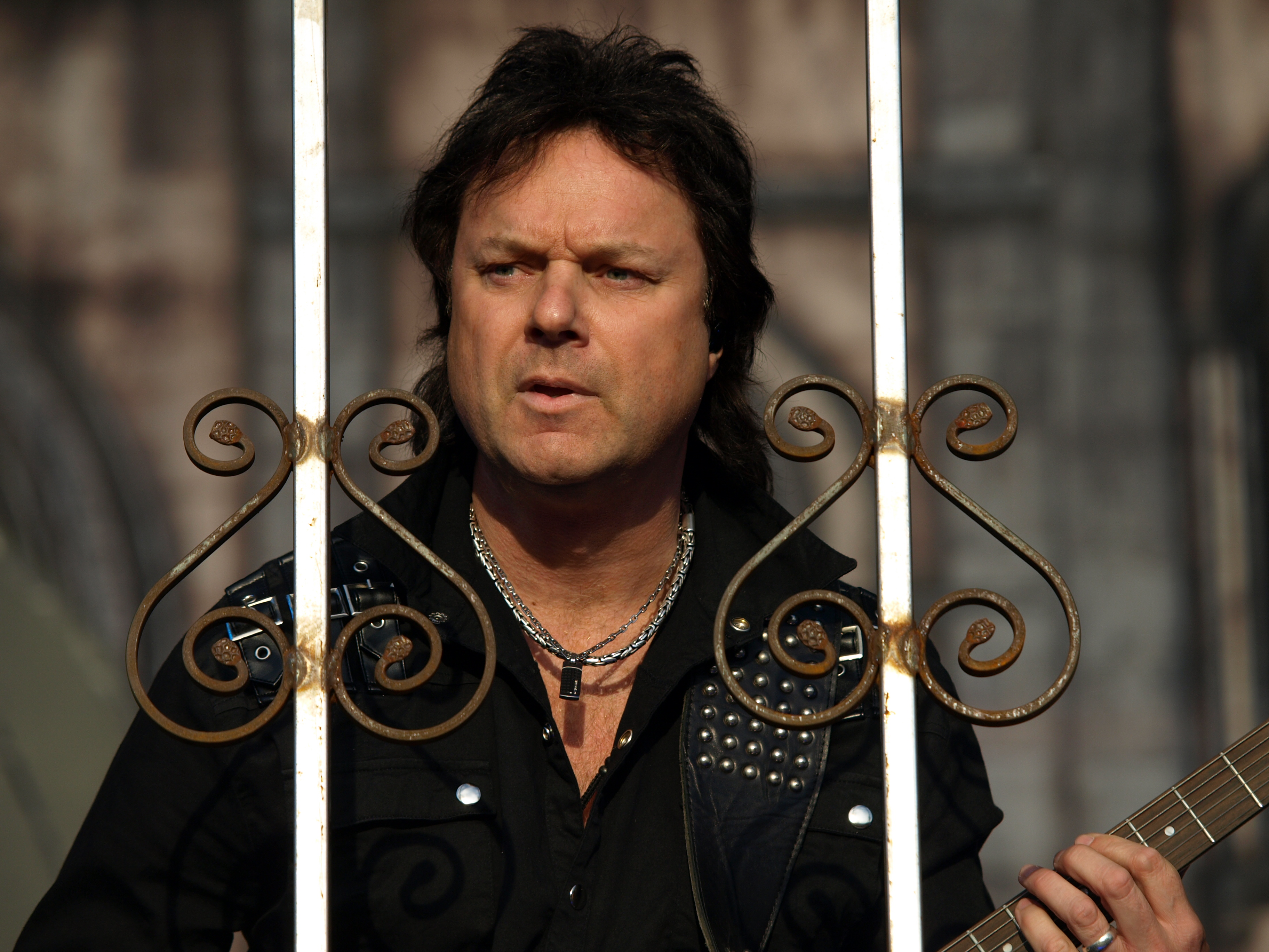 King Diamond and his band live at Tuska Open Air 2013